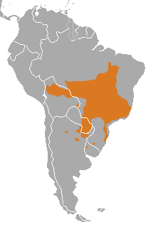 Maned Wolf (Chrysocyon brachyurus) range